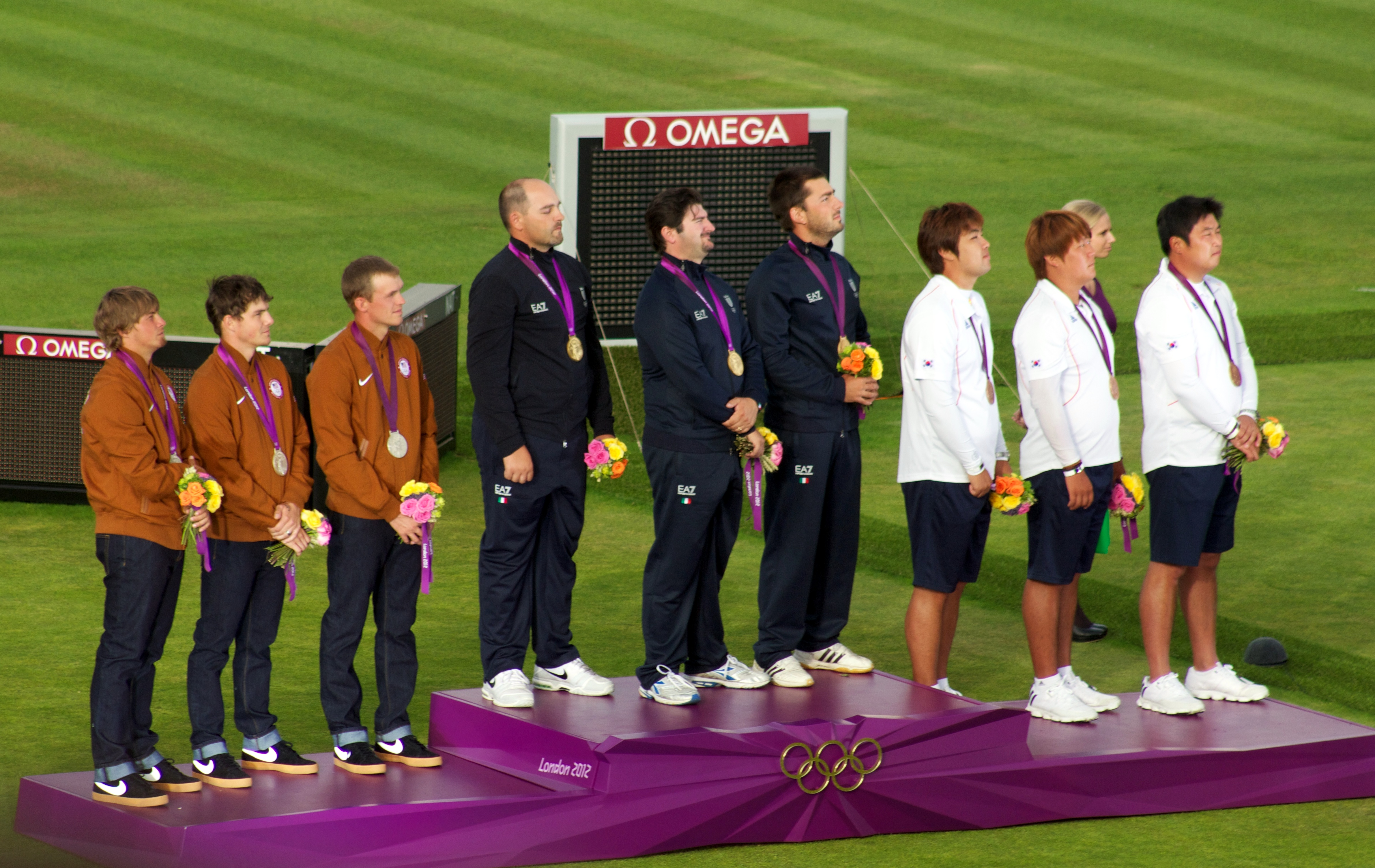 (L-R) Silver medalists Brady Ellison, Jake Kaminski and Jacob Wukie of the United States, gold medalists Michele Frangilli, Marco Galiazzo and Mauro Nespoli of Italy and bronze medalists Bubmin Kim, Donghyun Im and Jinhyek Oh of Korea stand on the podium during the medal ceremony after the Men's Team Archery Final on Day 1 of the London 2012 Olympic Games at Lord's Cricket Ground on July 28, 2012 in London.